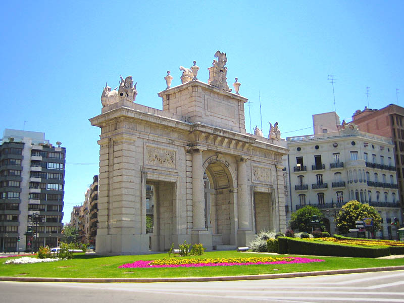 Porta del Mar monument in Valencia, Spain